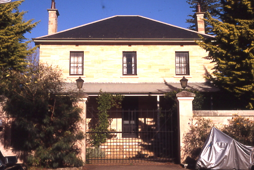 The restored Georgian home Waimea (listed on the National Estate), Woollahra, New South Wales, Sydney, photo by Sardaka 09:20, 16 July 2007 (UTC)